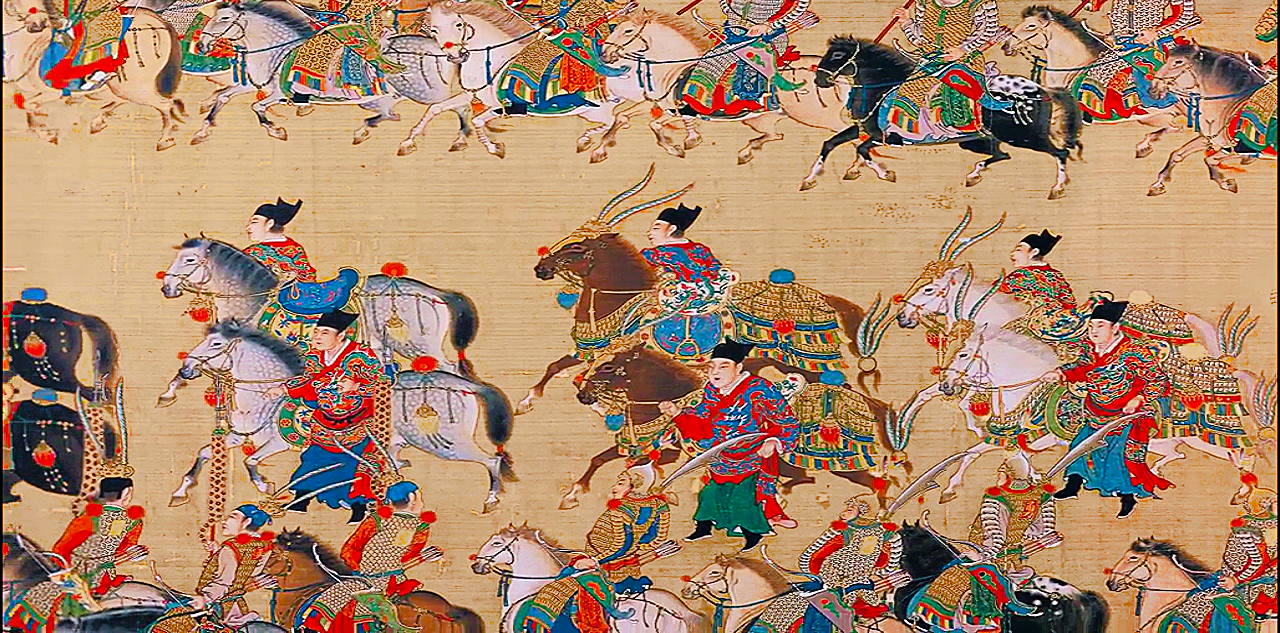 The painting depicts several high ranking Jinyiwei, or brocade robed guards in service as the Emperor's elite bodyguards escorting several of his prized horses during imperial parade. Jiajing era- Ming dynasty.